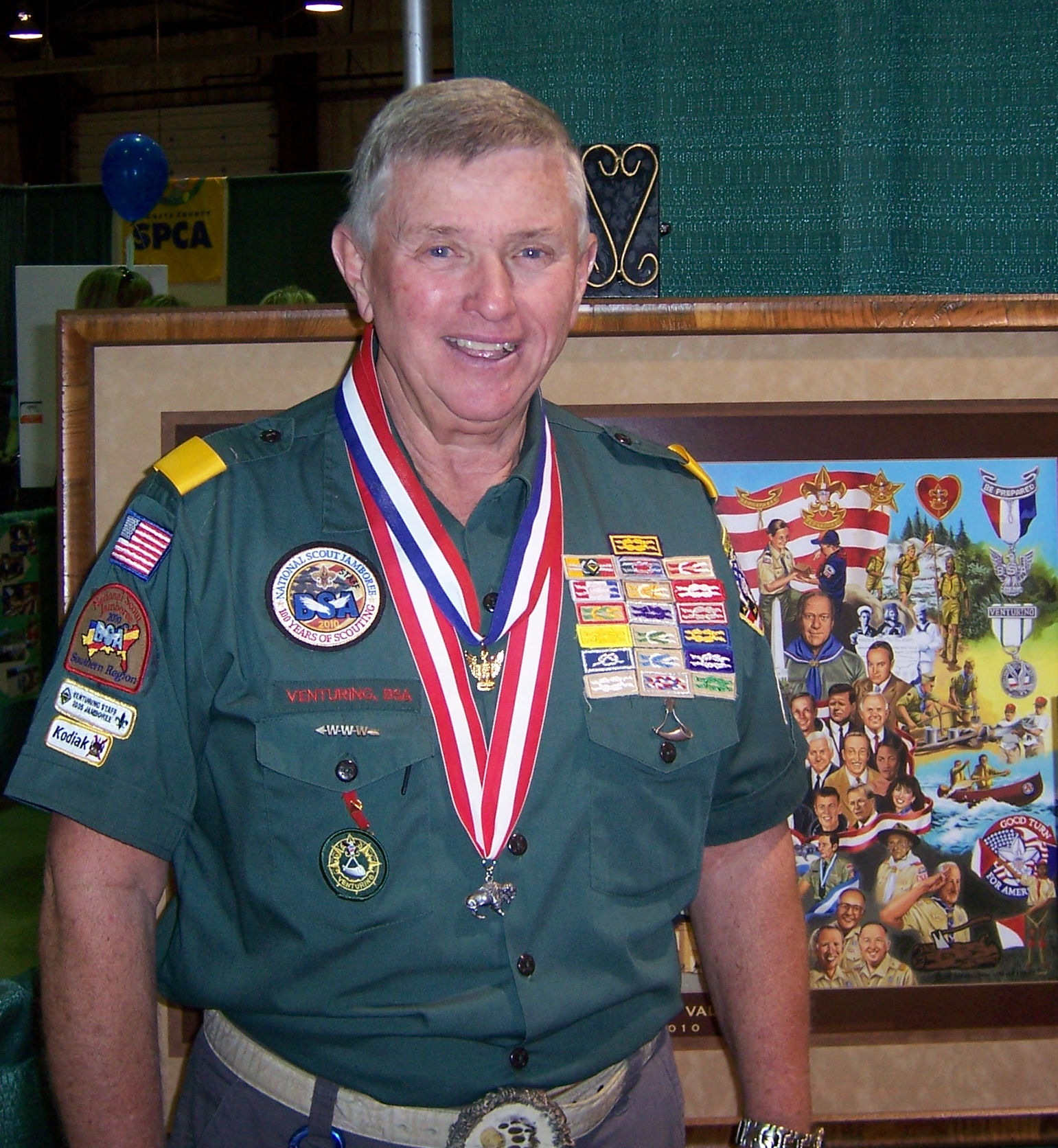 Photo of Richards M. Miller at the Stonewall Jackson Area Council Scout Expo 2010